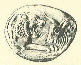 Source: Maspero, G, History of Egypt: Chaldea, Syria, Babylonia, and Assyria. Vol 9.The Grolier Society, London (1906).